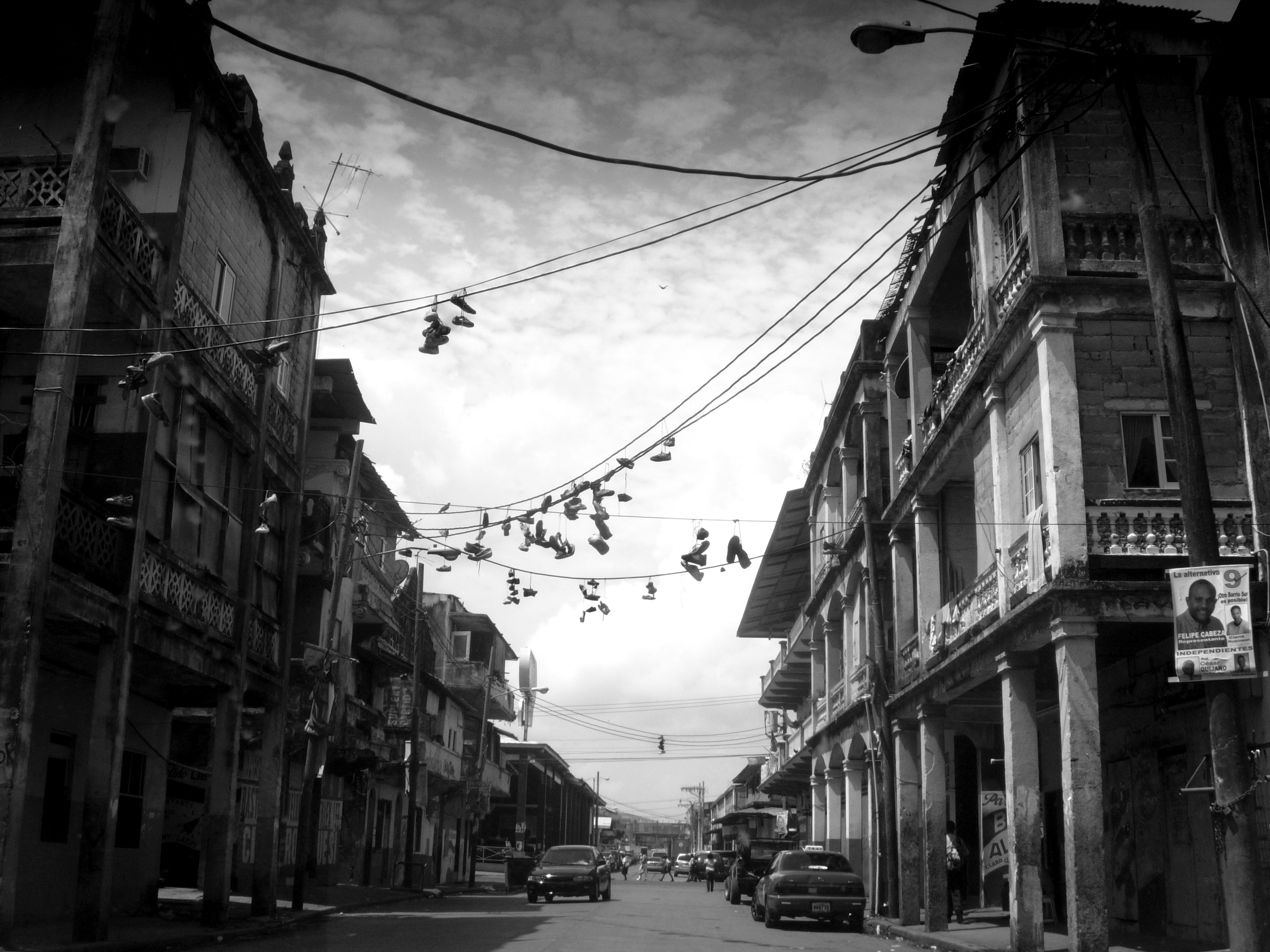 Old houses, South Town, Colon city. This type of architecture developed around the construction of the Panama Canal Railway and the Panama Canal. Today most of these buildings are in dreadful state.